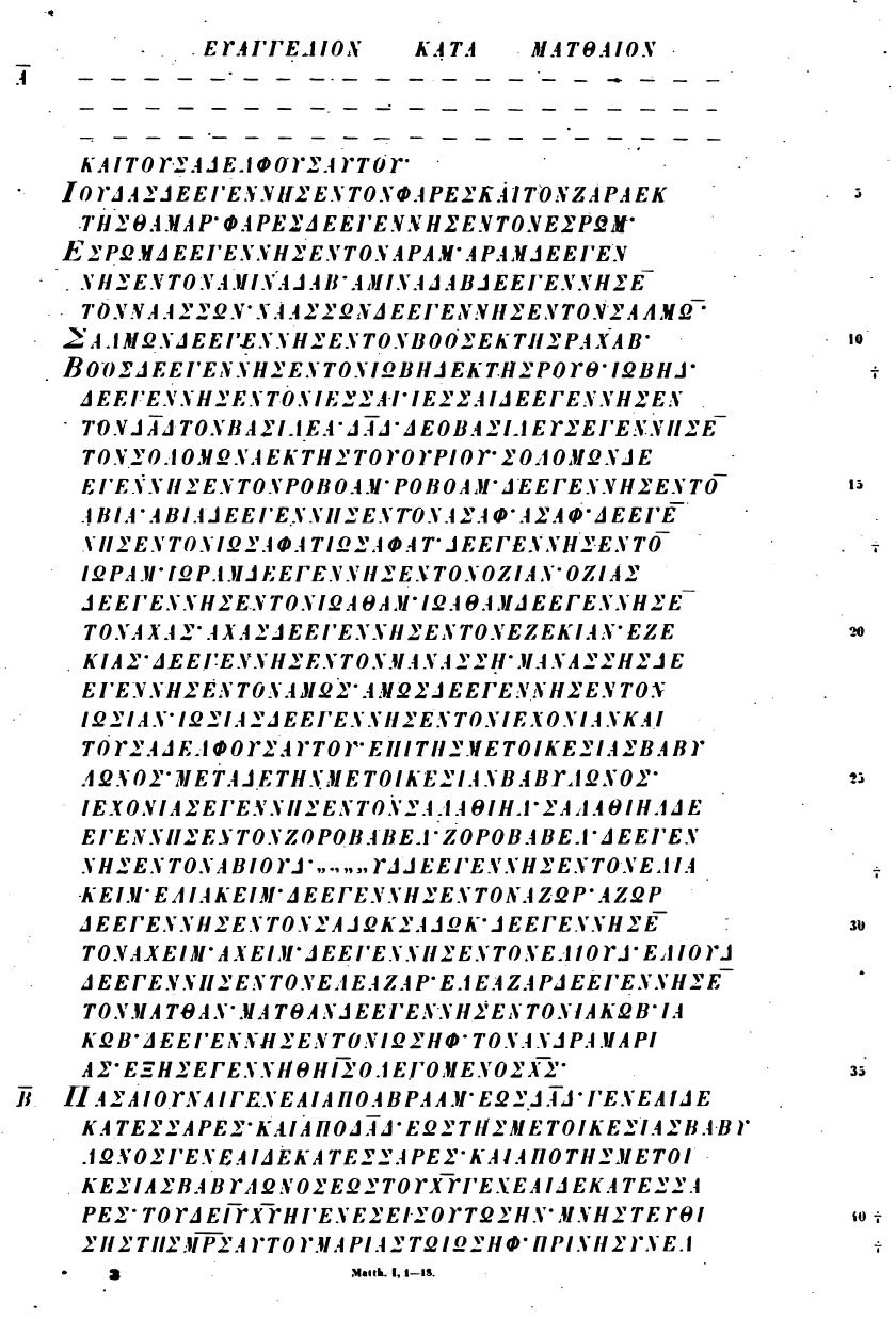 page with text of Matthew 1:1-18